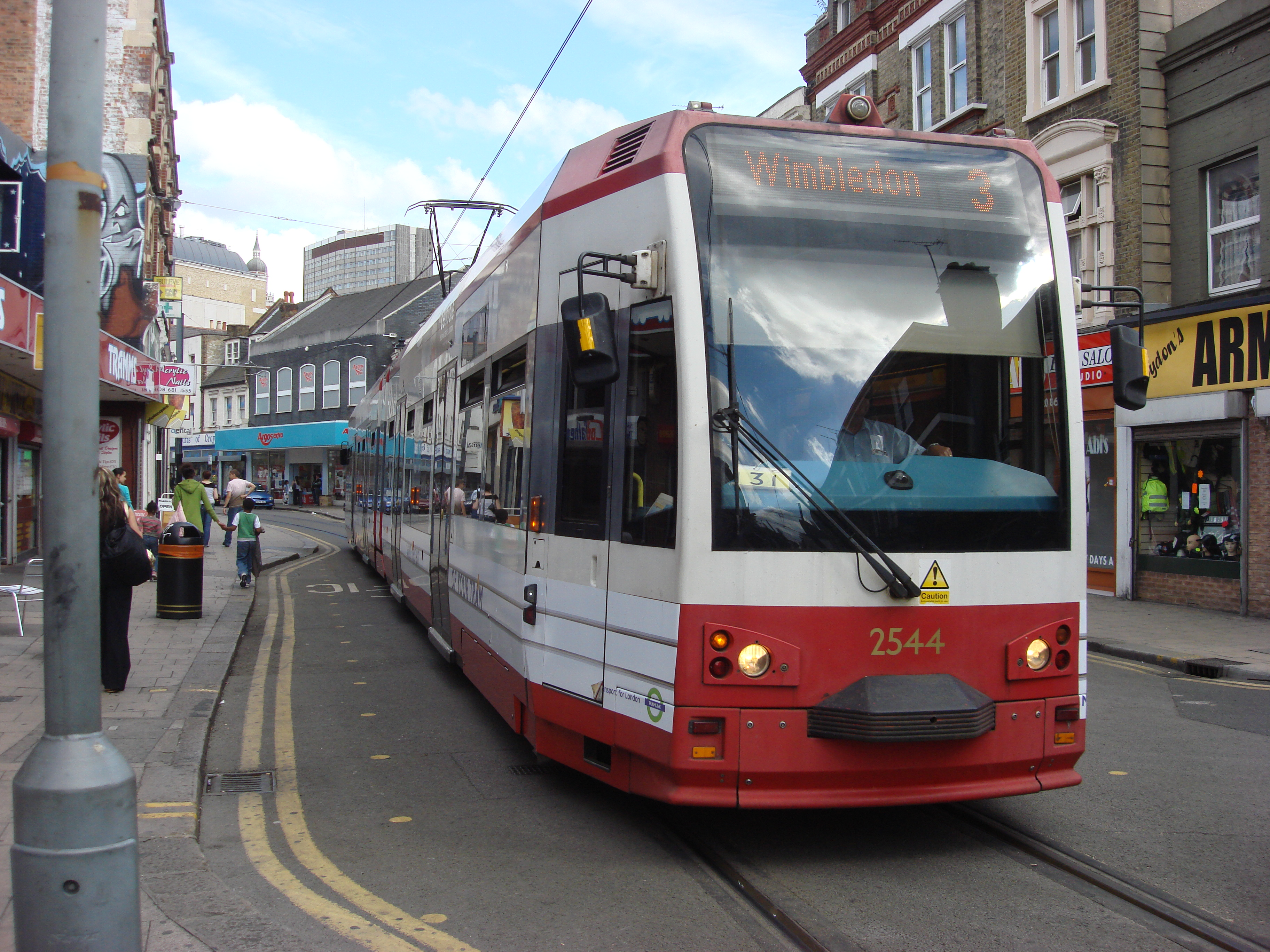 Tramlink Tram 2544 at Church Street